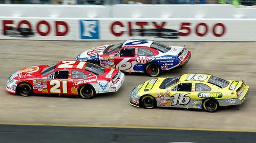 racing at the spring NASCAR race at Bristol, #21 Ken Schrader #6 Mark Martin #16 Greg Biffle